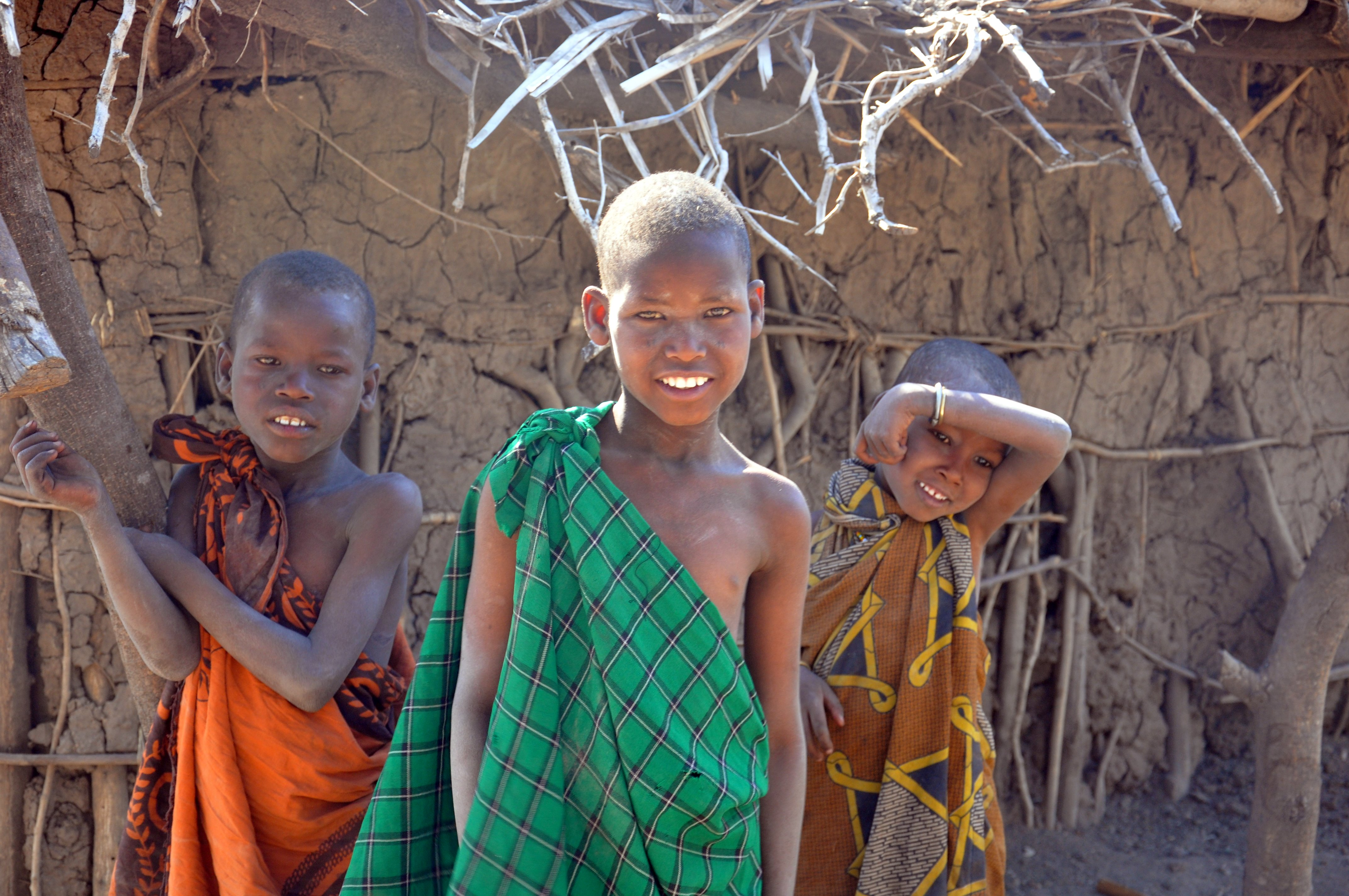 Datoga Children, Lake Eyasi - Tanzania